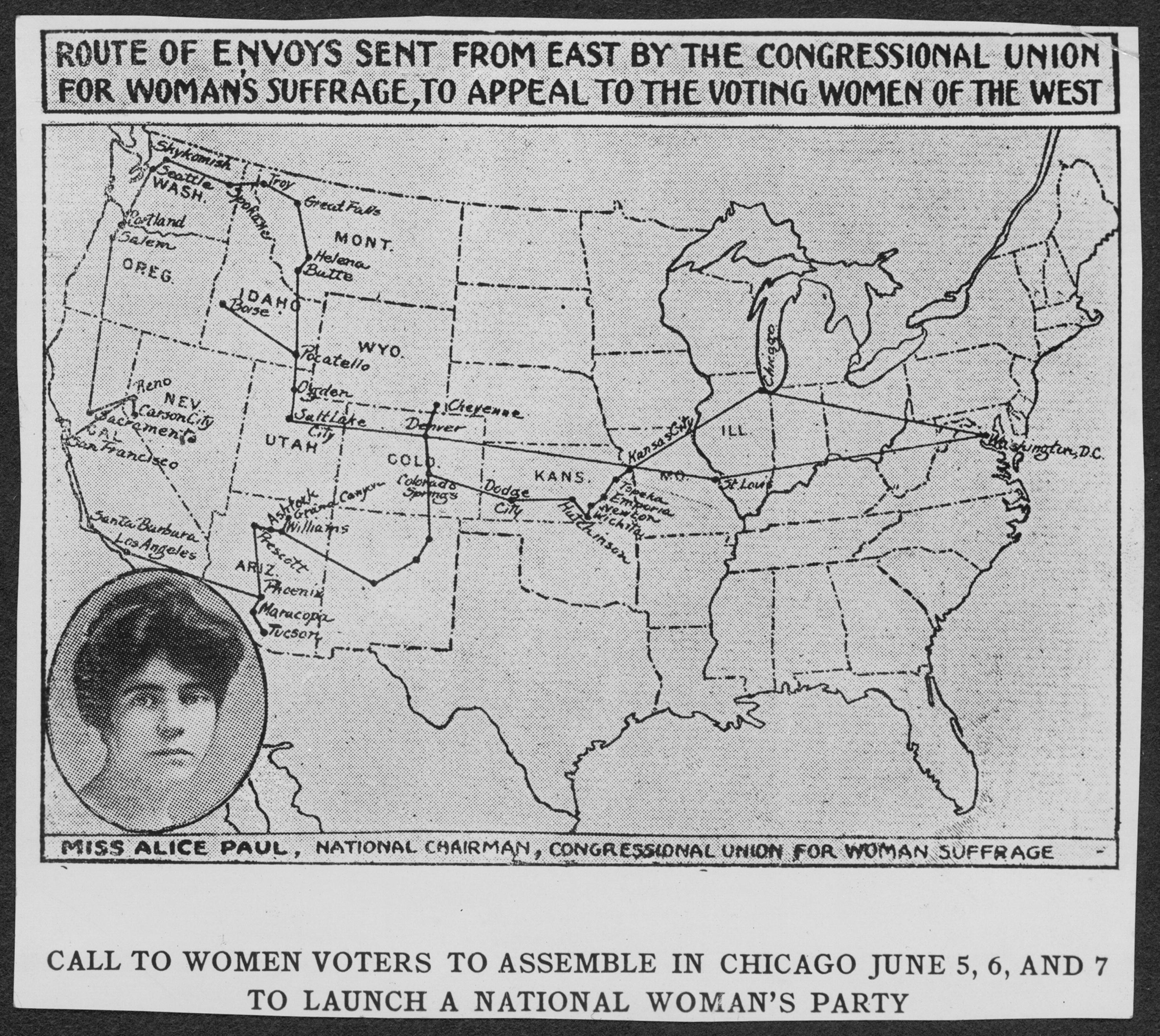 Summary: Map of the United States showing tour of Congressional Union for Woman Suffrage. Image of Alice Paul in lower left-hand corner. Captioned "Call to Women Voters to Assemble in Chicago June 5, 6, 7 to Launch A National Woman's Party."